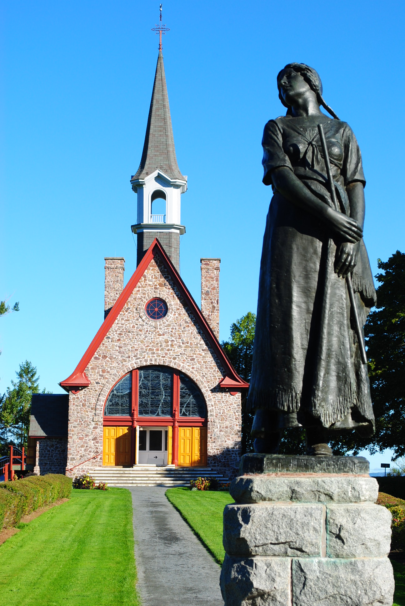 Grand-Pré National Historic Site